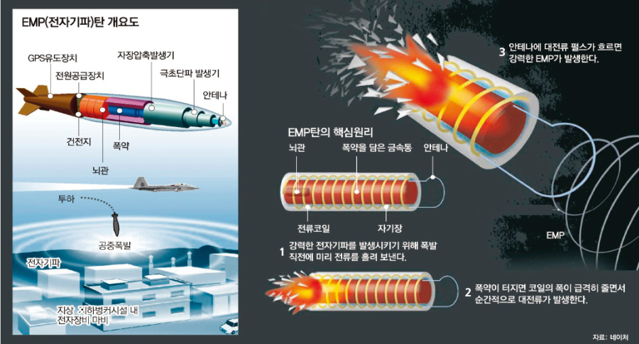 termpapaper5